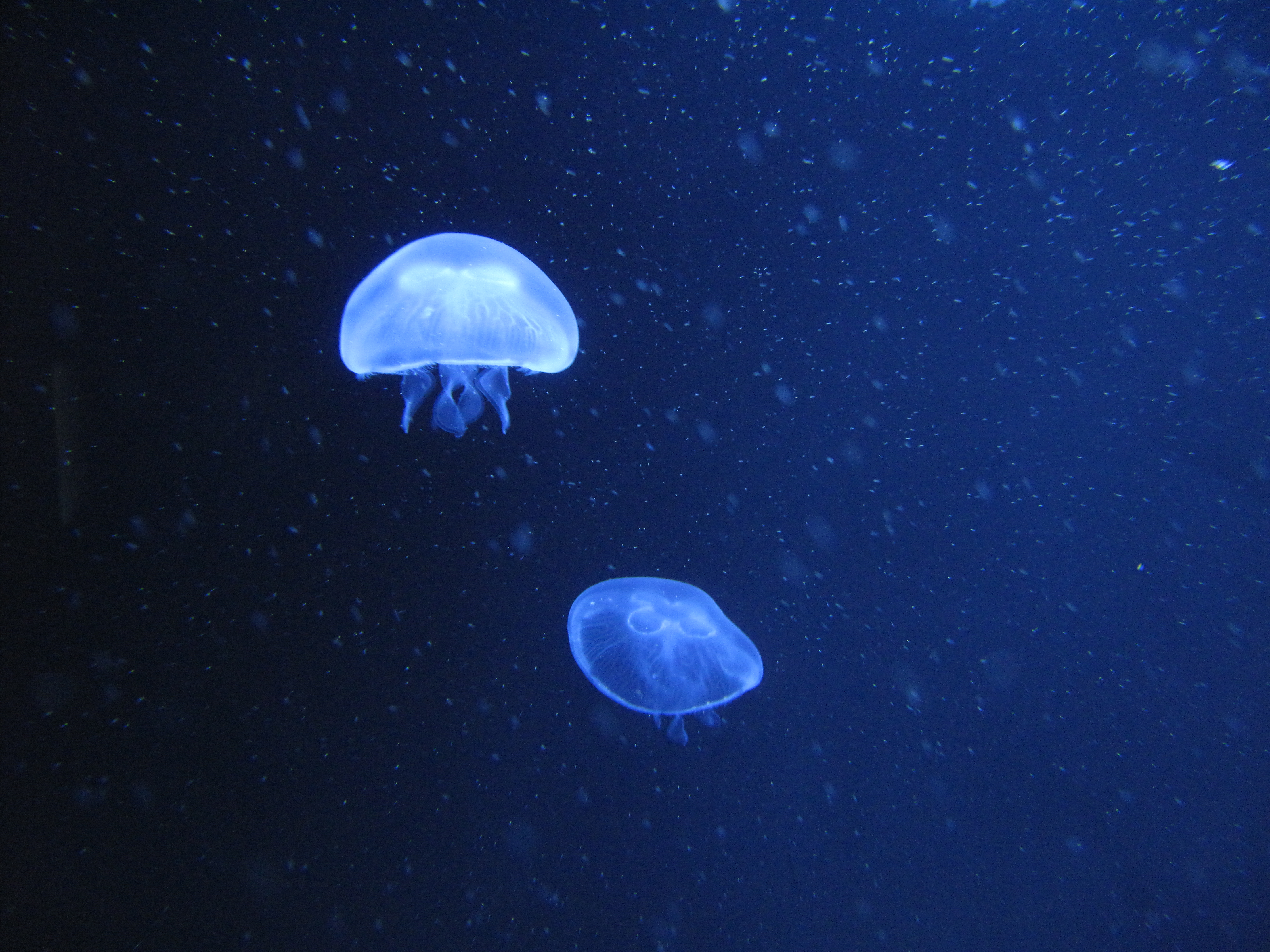 This image shows two moon jelly fish (Aurelia aurita).